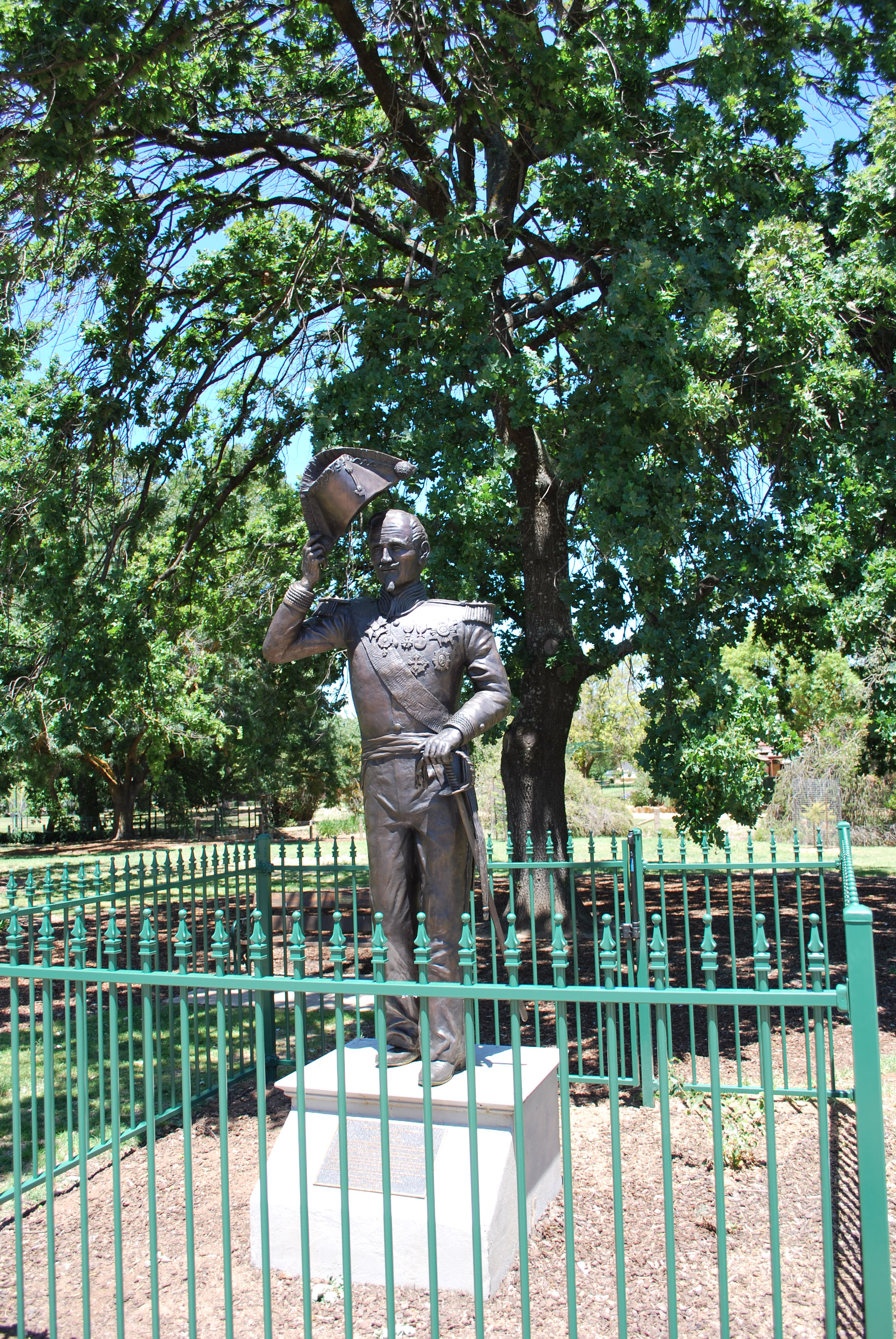 Statue of Jacques Leroy de Saint Arnaud at St Arnaud, Victoria